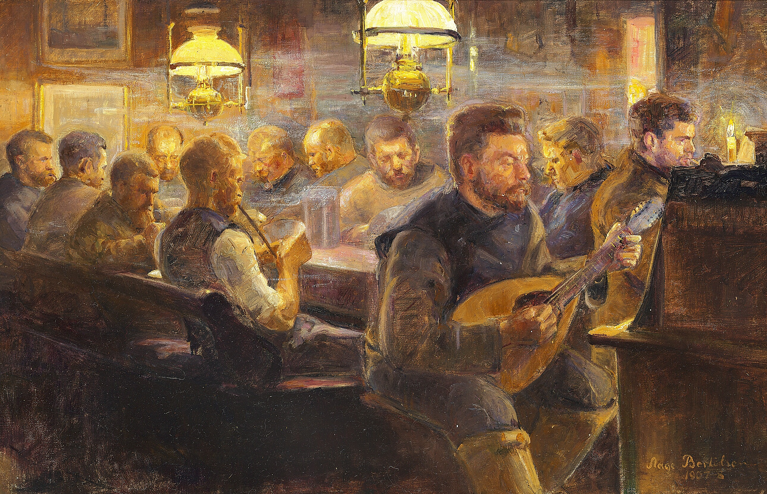 This scene is taken from the Danmark expedition to North East Greenland in 1907-08. Aage Bertelsen took part as illustrator, and here he has painted the men singing in the mess of the ship Danmark.